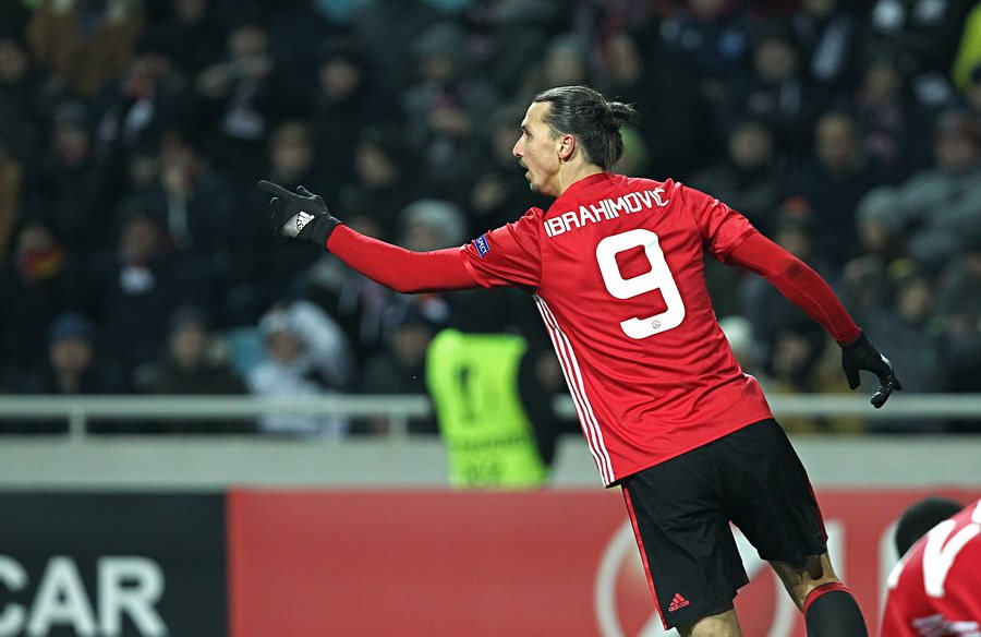 Zlatan Ibrahimović